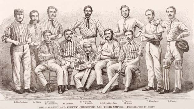 Print of the England Cricket Team of 1868-9 showing cricketer Thomas Humphrey standing second from right